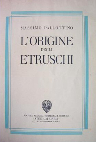 Cover of "Origine degli Etruschi", 1947, by Massimo Pallottino